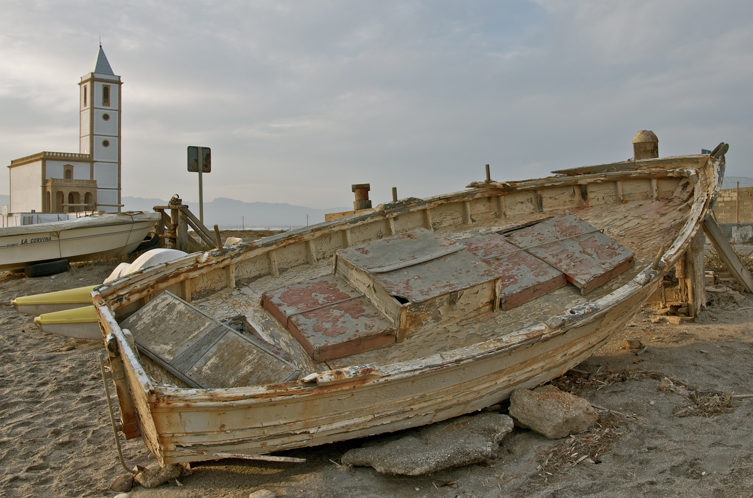 Iglesia de San Miguel and adjacent beach showing one of the old fishing boats that has been left due to its historic value.